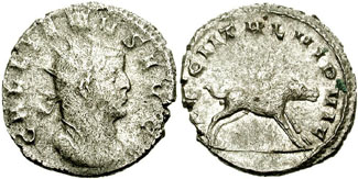 Gallienus. 253-268 AD. AR Antoninianus (3.73 gm). Mediolanum (Milan) mint. Struck circa 260-262 AD. Radiate and cuirassed bust right LEG I ITAL VI P VI F, boar standing right. RIC V 320; MIR 36, 986n; RSC 455. VF, toned, obverse struck with worn die. From the Tony Hardy Collection.